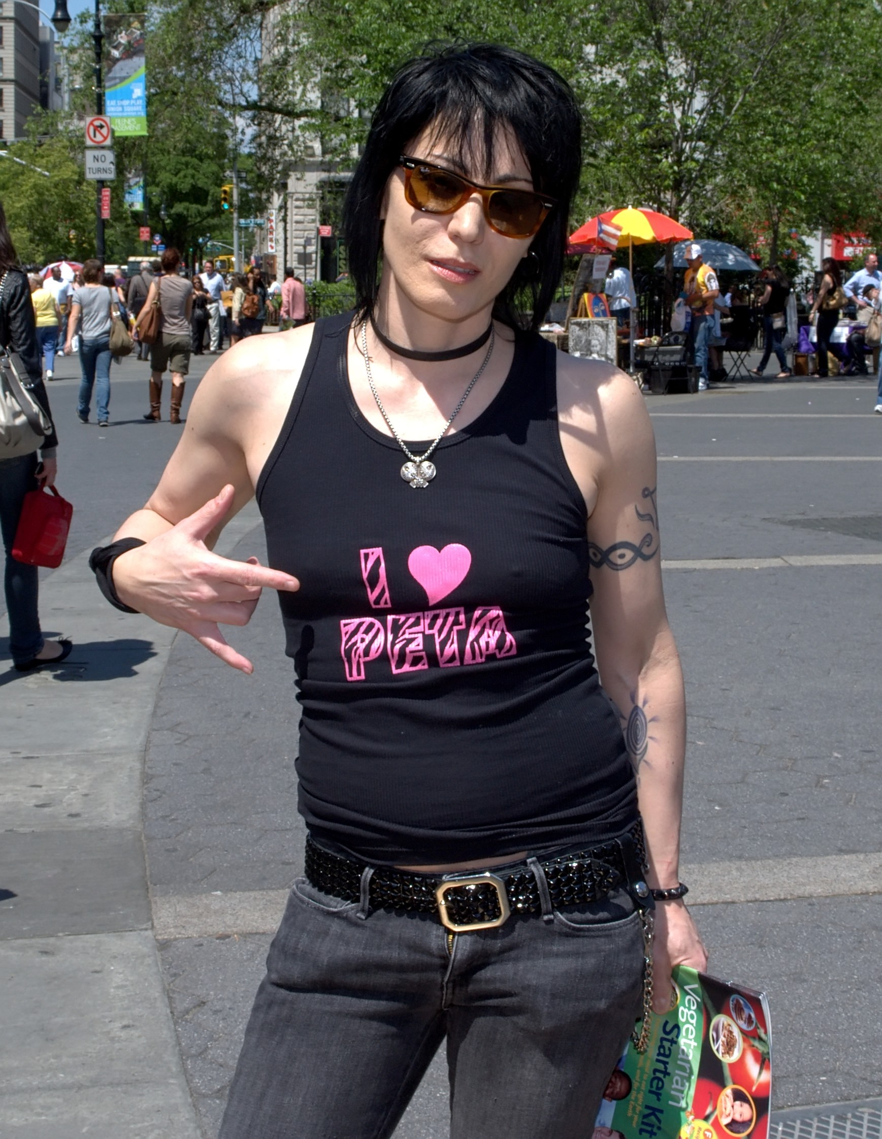 Joan Jett in New York City's Union Square. Photographer's post about event.